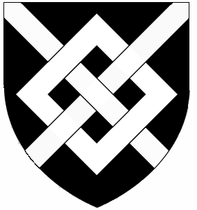 Armorial of Baron Harington (1326): Sable, a fret argent (Source: Burke's General Armory 1884, p.459). Image is an alteration of File:Earl of Dysart COA.svg.